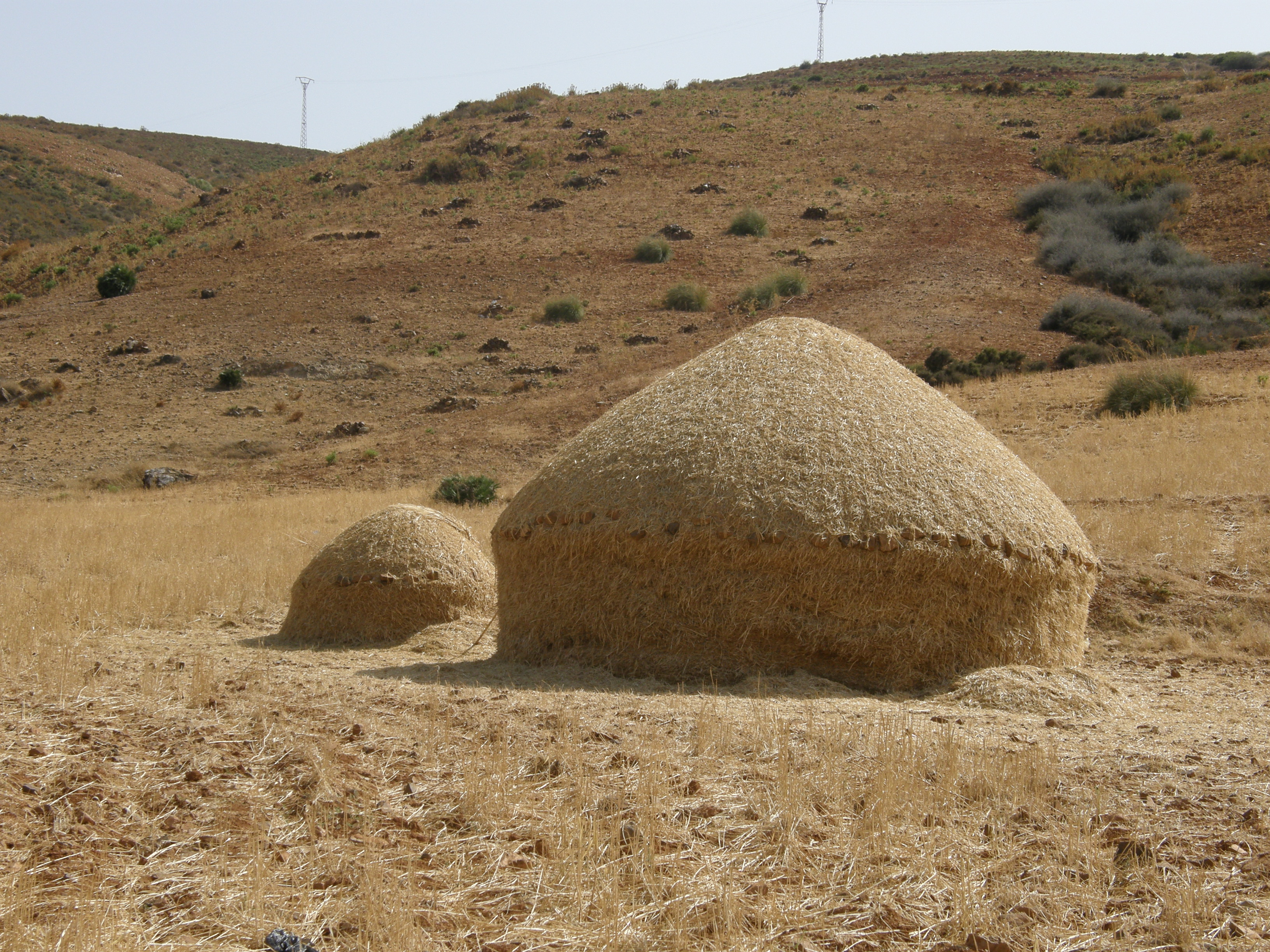 At Al Hoceima National Park